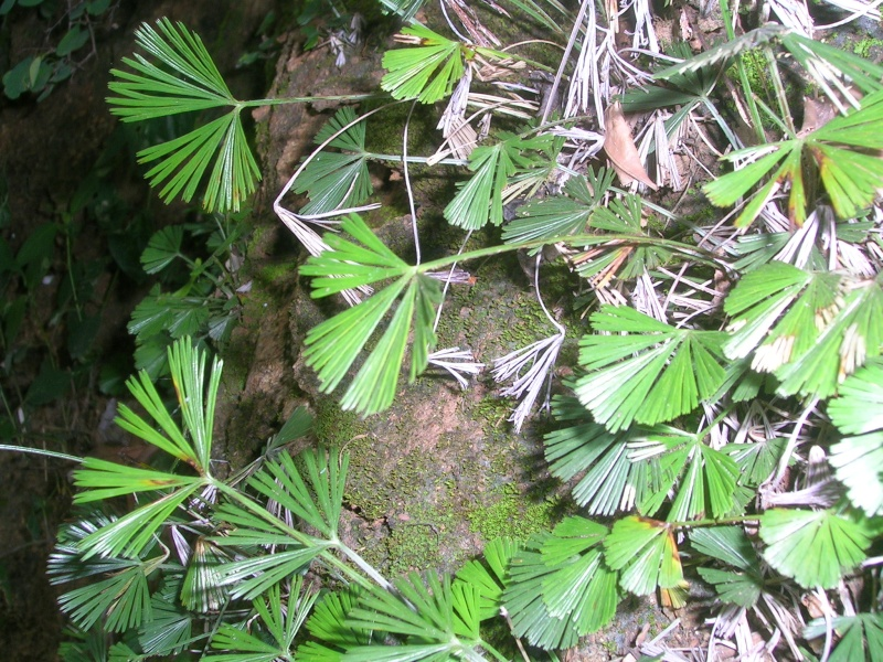 Fern, Actiniopteris radiata (determination by Suprabha Seshan) Javadi Hills, Tamil Nadu (foothills near Polur)